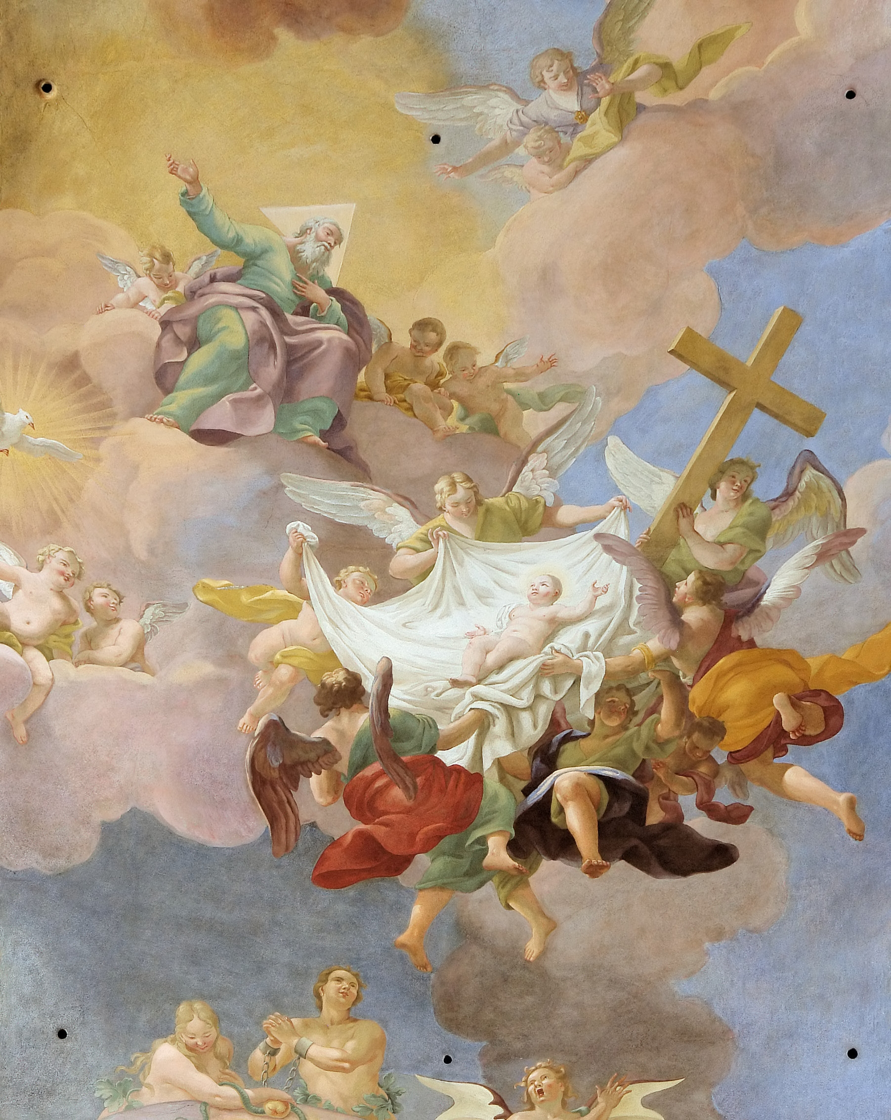 Detail - Glory of the New Born Christ in presence of God Father and the Holy Spirit (Annakirche, Vienna) Adam and Eva are represented bellow Jesus-Christ Ceiling painting made by Daniel Gran (1694-1757). Post-processing: perspective and fade correction.